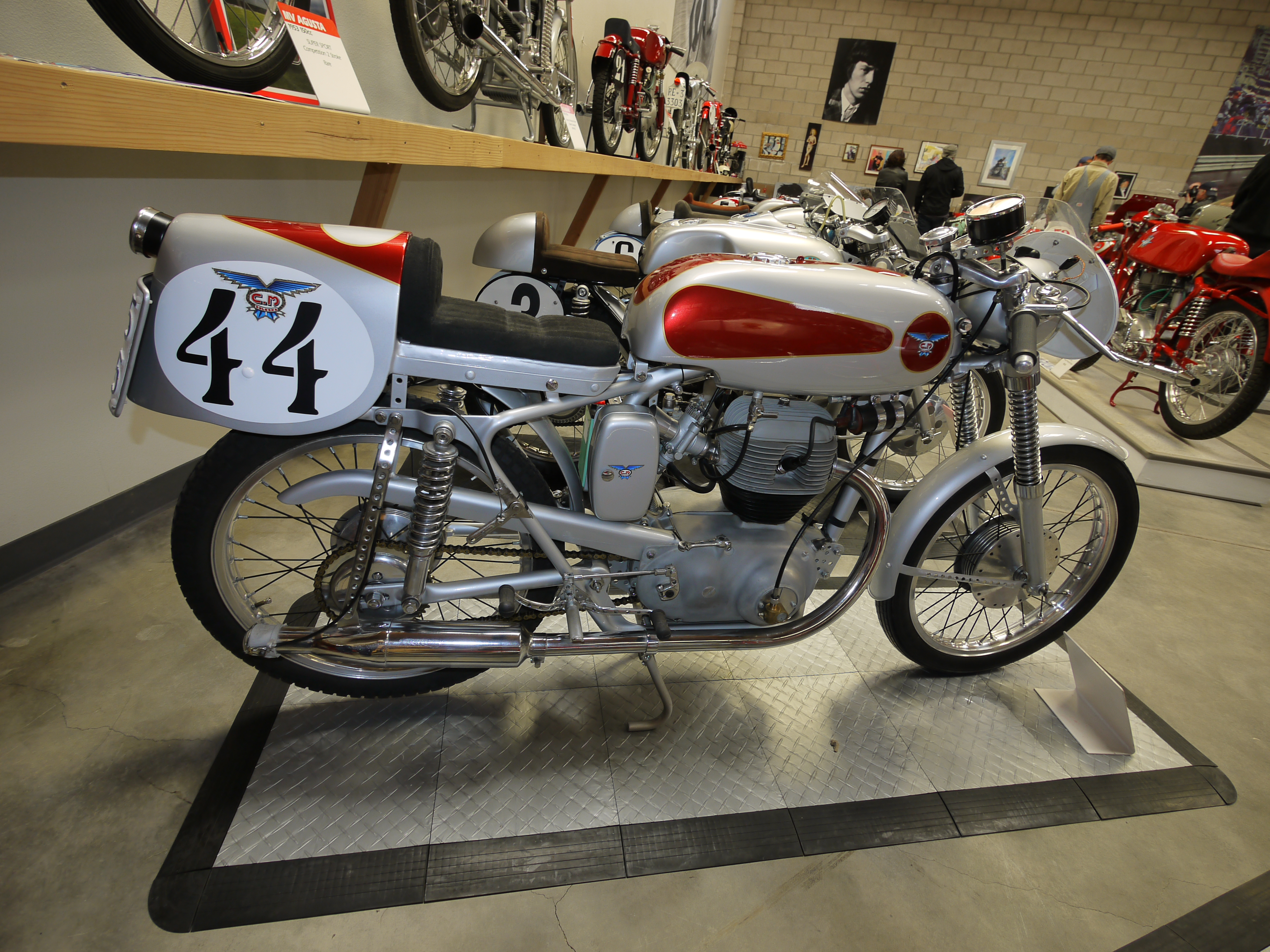 CM 175 Francolino, 1956, MSDS